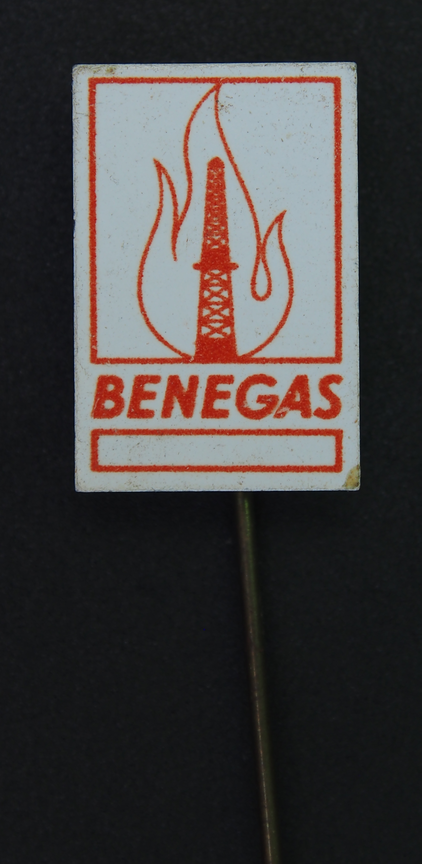 Advertising pin of an old (Dutch) product or brand.